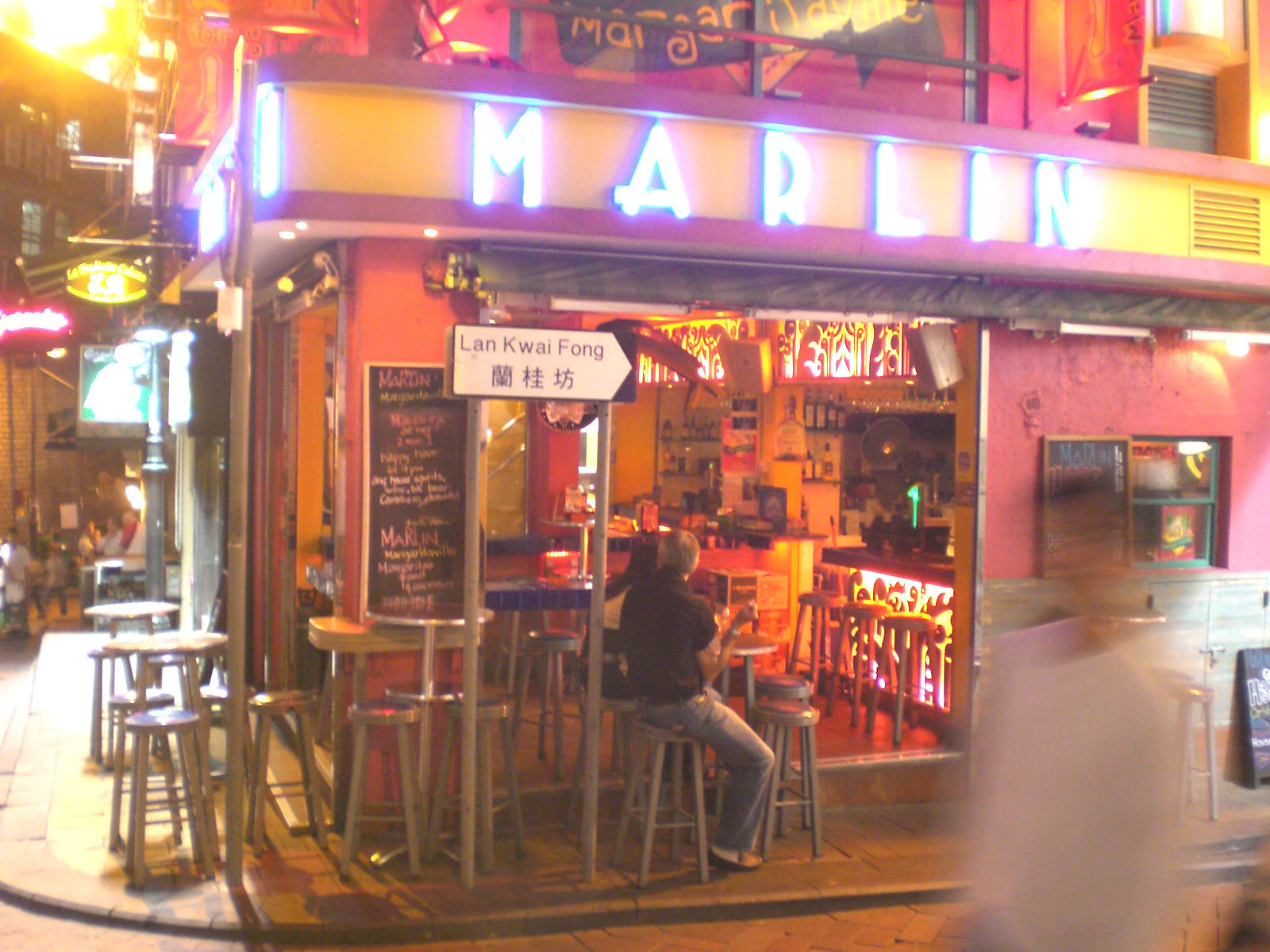 中環蘭桂坊酒吧One of the 2 corners between Lan Kwai Fong and D'Aguilar Street